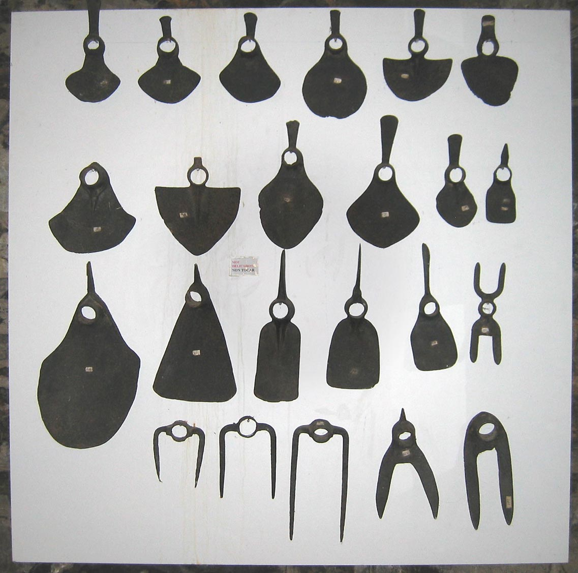 Agricultural tools. Taken in ethnographic museum Centro Etnográfico de Soutelo de Montes, Pontevedra, Forcarei, Galicia.